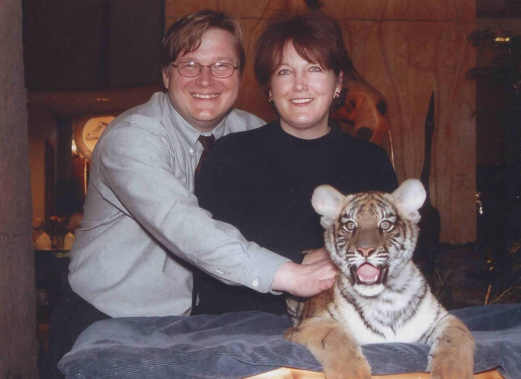 Kevin and Sue Shibilski at the 2003 Wisconsin Governor's Conference on Tourism at the Kalahari Resort in Wisconsin Dells, WI, March 16-18.